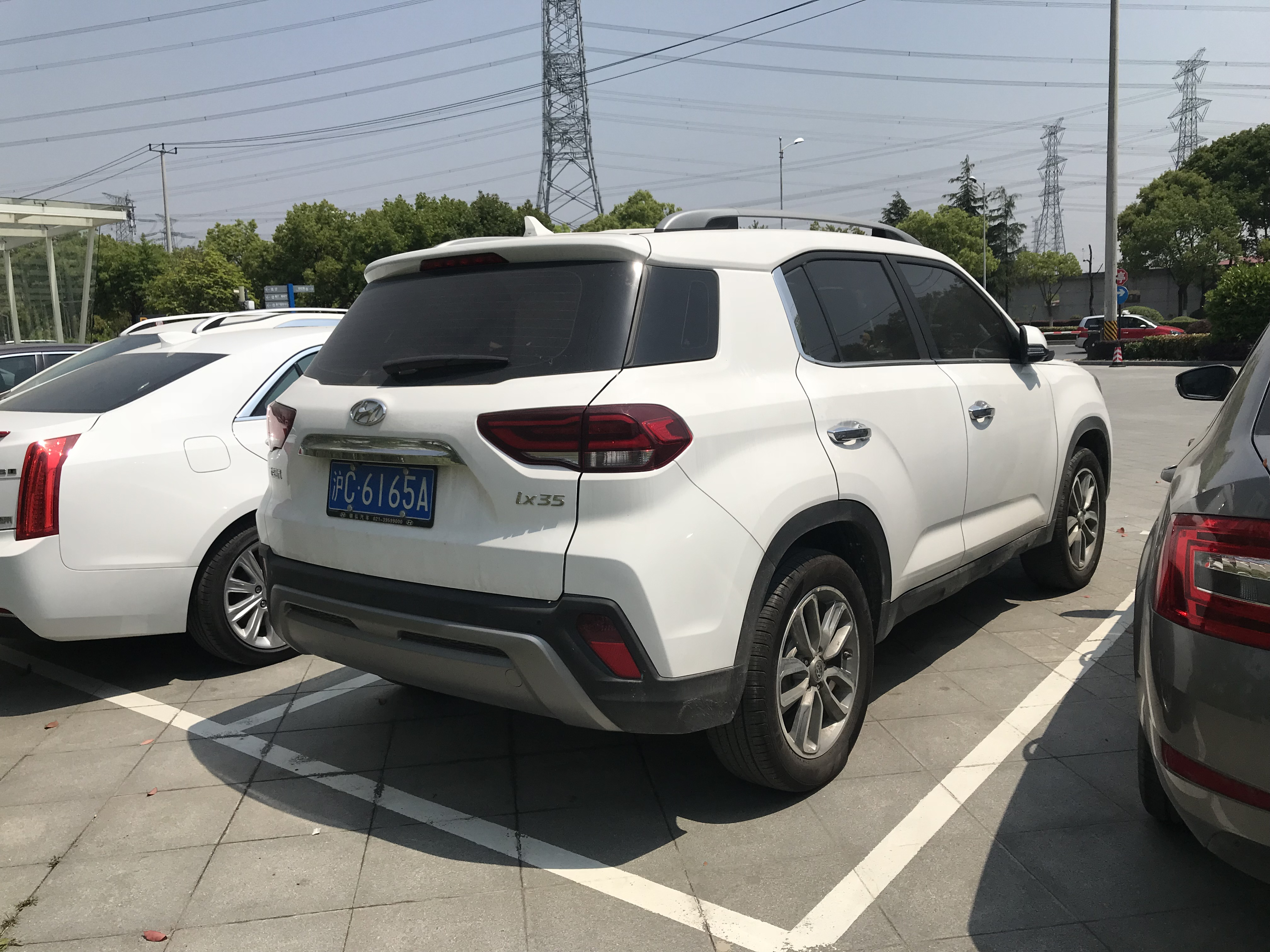 Hyundai ix35 II China